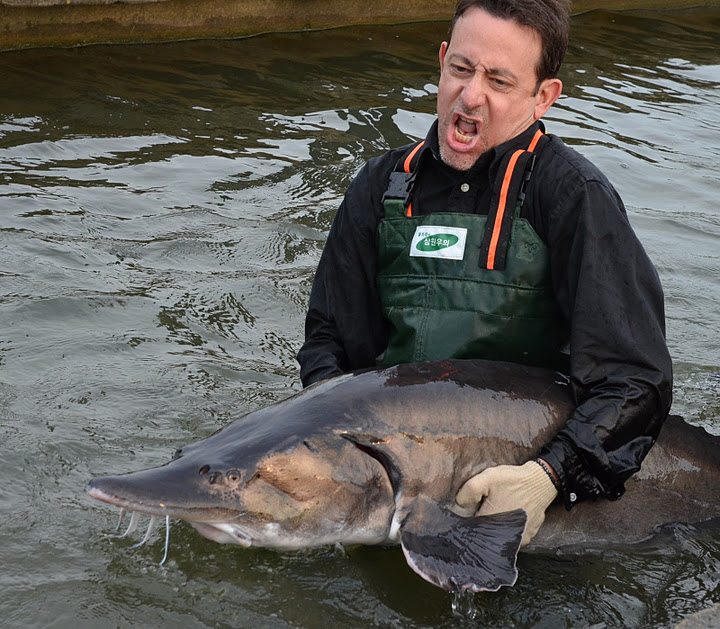 VOA correspondent Steve Herman, on location, tries to get his hands around a beluga sturgeon, which are critically endangered but harmless to humans. (VOA)